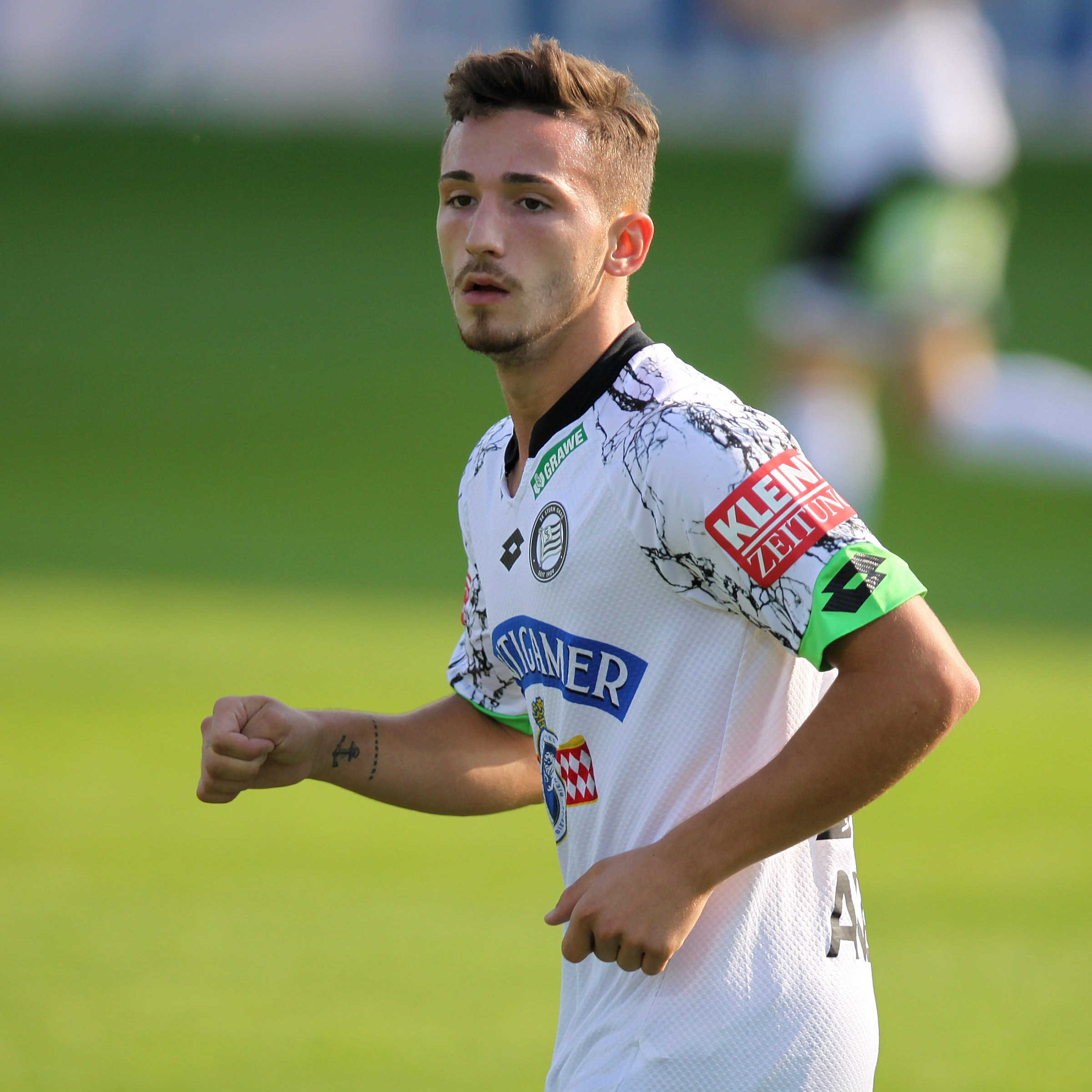 Match of the Austrian Football Bundesliga – SV Mattersburg (green shirts) vs. SK Sturm Graz (white shirts) on 2015-09-13 in Pappelstadion, Mattersburg – The photo shows Donis Avdijaj